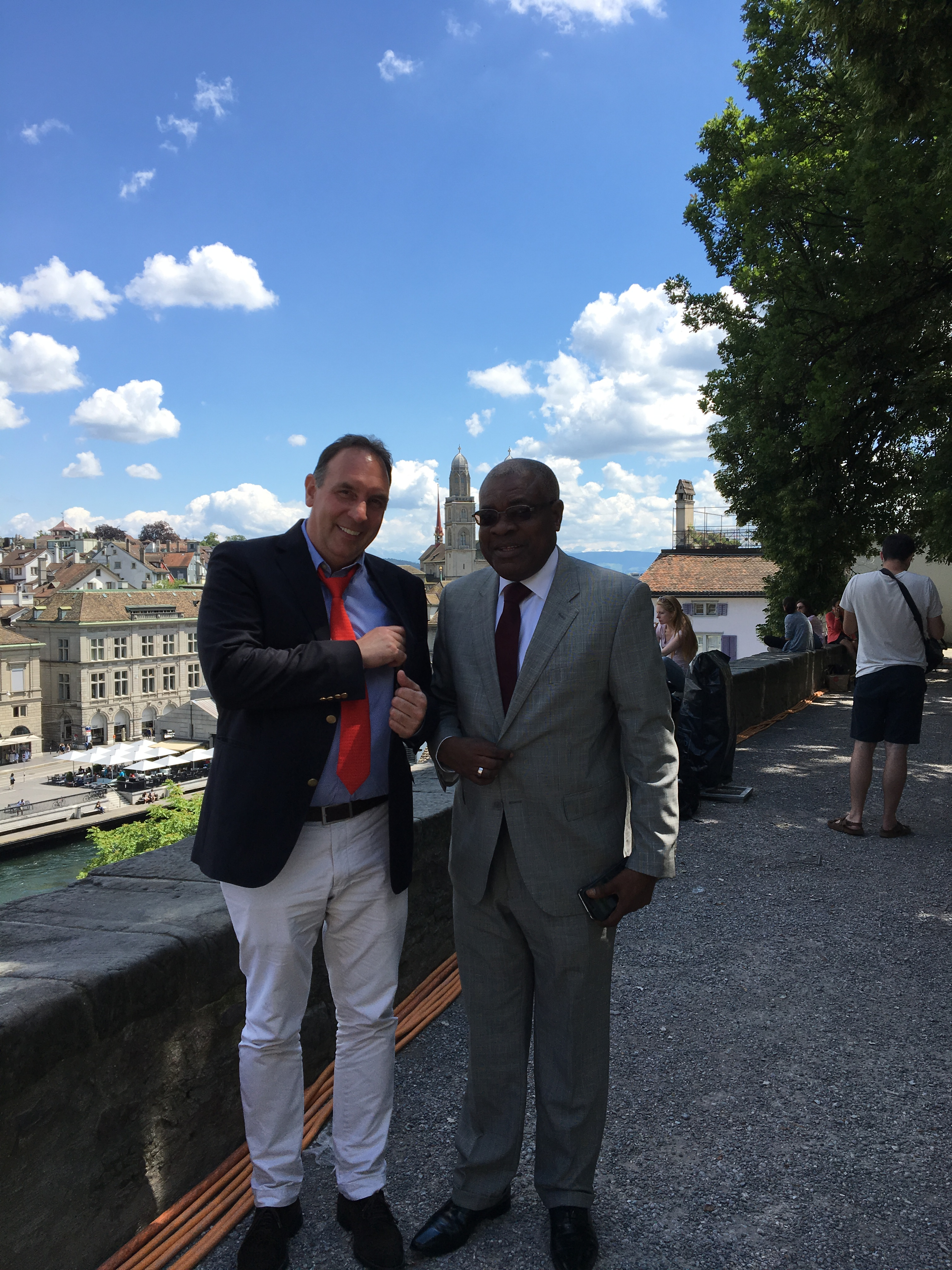 Stephan Welk and Minister of Foreign Affairs of São Tomé and Príncipe Manuel Salvador dos Ramos